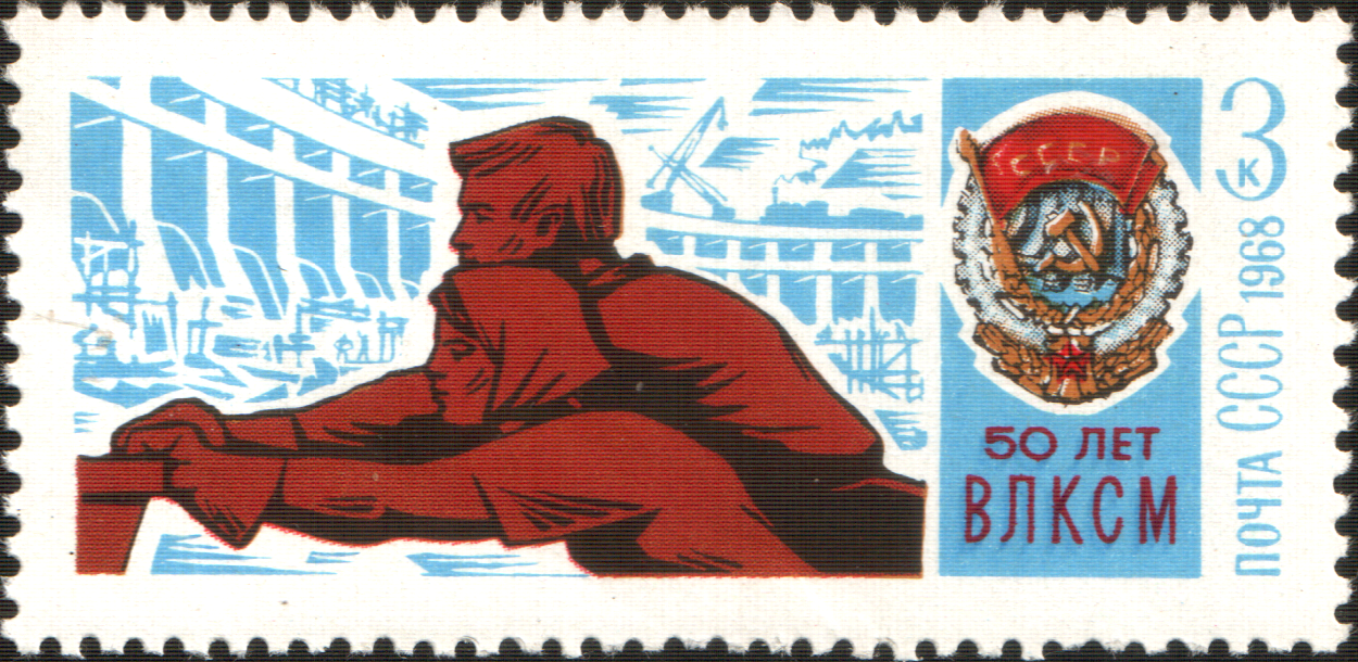 USSR stamp: Young Workers, Dneprostroi Dam and Order of the Red Banner of Labour (Komsomol and Industry Constructions of First Five-Year Plans). Series: 50th Anniversary of the All-Union Leninist Young Communist League, Komsomol (Founded on 1918.10.29)